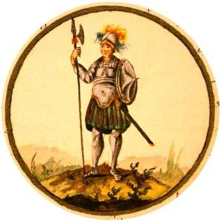 Coat of Arms of Daugai city in 1792